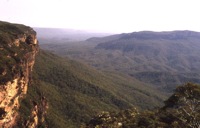 view of Jamison Valley from outside Wentworth Falls, Blue Mountains, NSW, Australia (probably the view Charles Darwin saw on his walk from the Weatherboard Inn, Wentworth Falls, during his brief stay in Australia)